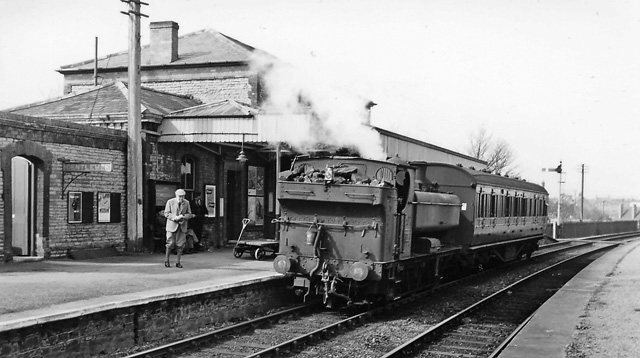 Tewkesbury Station A train waits to leave for Ashchurch from the only platform then in use - only five months before closure. (My father is seen standing nearby.)